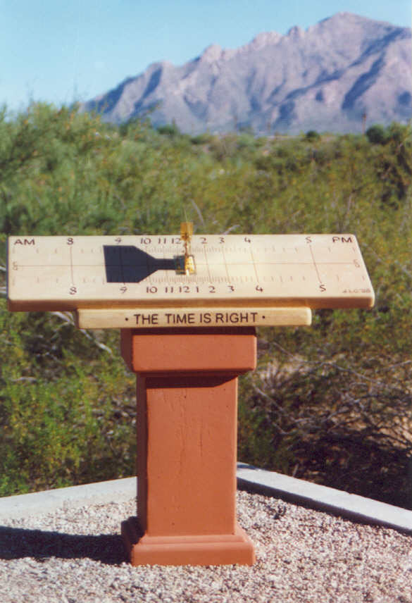 This is a stone polar sundial by sundial maker and designer, John Carmichael. It is in Tucson Arizona